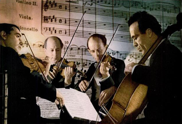 Advertising image for the Budapest String Quartet's recordings on the Columbia Masterworks Records label, printed in Life (volume 16, number 25), page 45.